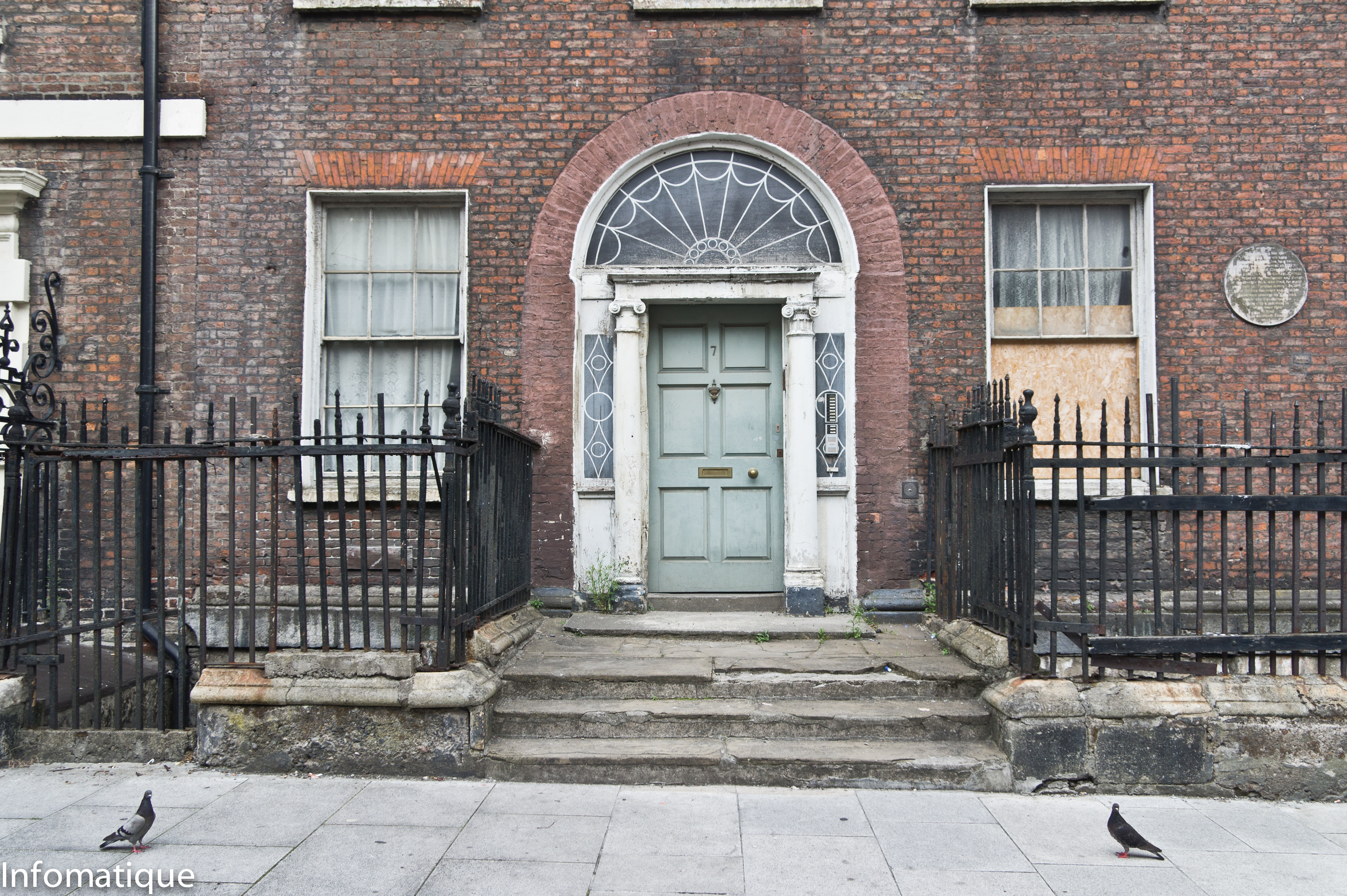 No. 7, built by Nathaniel Clements for himself, c.1738. I Googled Henrietta Street and found the following: The Adventuress of Henrietta Street (Doctor Who) The Tenements is a new four-part social history documentary series about life in Dublin’s slums, particularly in those Georgian houses that were carved up in the late 1850s by wealthy landlords to provide accommodation for the city’s poorest inhabitants. The 1911 census recorded that 104 people – 19 families – lived in one house in Henrietta Street, and the many historians who contributed to the programme gave vivid details showing how, 100 years ago, Dublin had some of the worst, most overcrowded, disease-ridden slums in Europe.